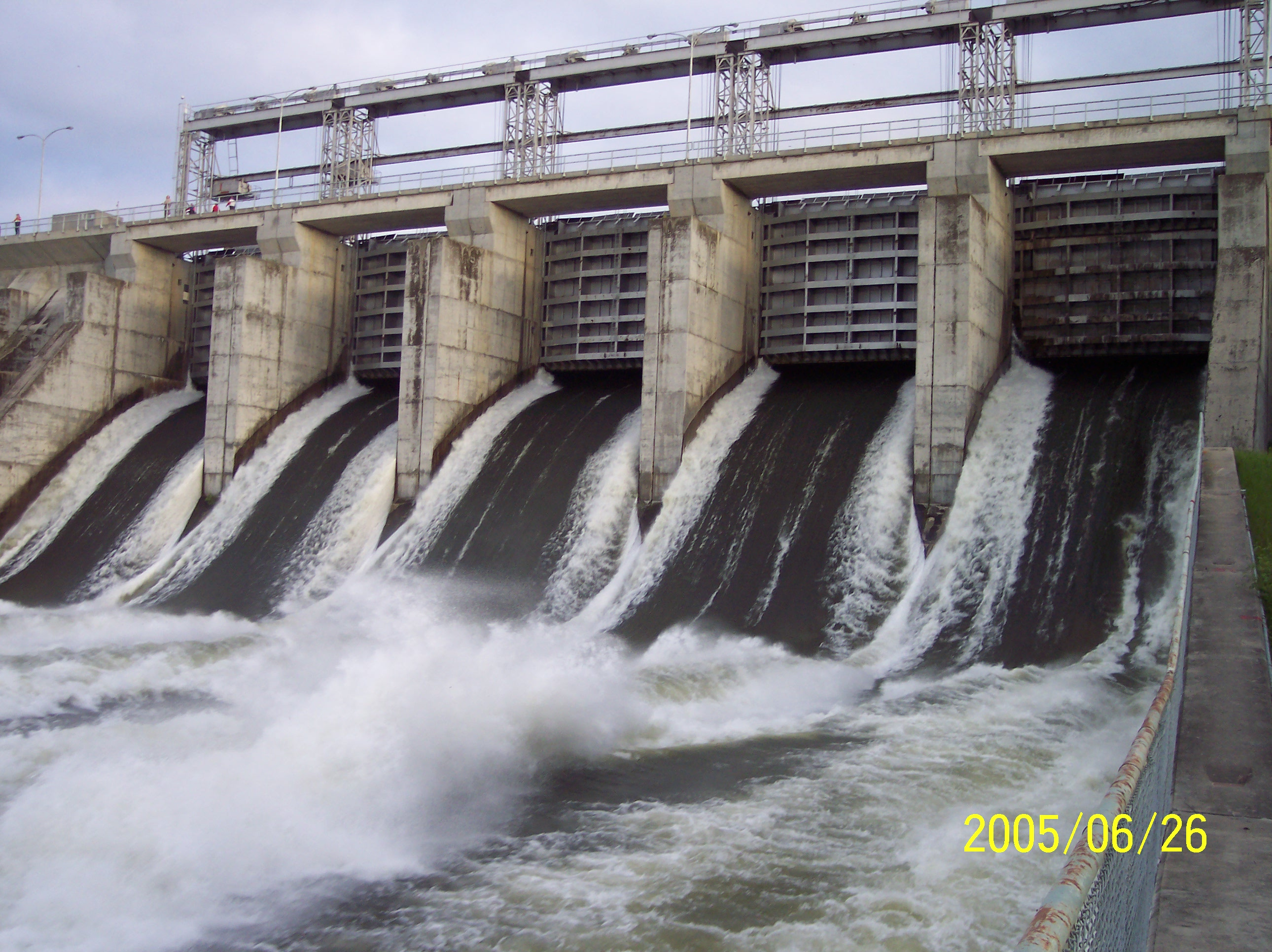 The spill way at the E.B. Campbell Hydro Electric Station/Dam spilling water.